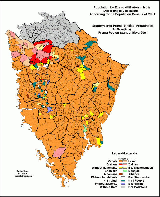 Ethnic map of Istria, according to the population census of 2001. Data according to settlements. Note: Census was held in Slovenia in 2002, and they have not released data on settlements.